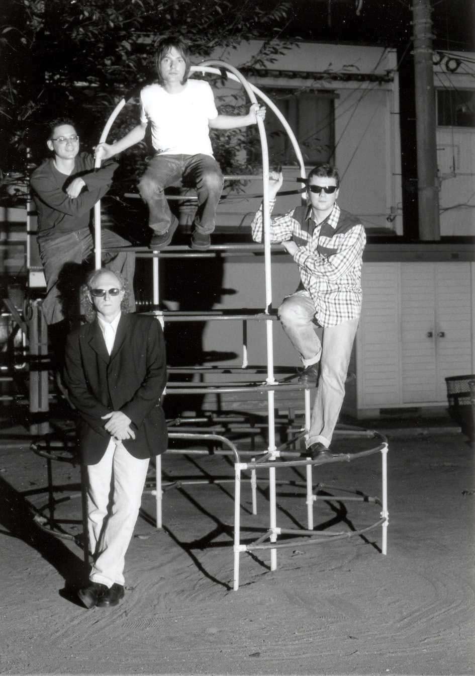 Scruffs in 2001- is a legendary memphis power pop band. The re-union is for their album "Love The Scruffs" and this is in their Japan tour. the Scruffs are Stephen Burns, Bobby (Belle and Sebastian), Wil (The Andersons), Francis (Teenage Fanclus etc)